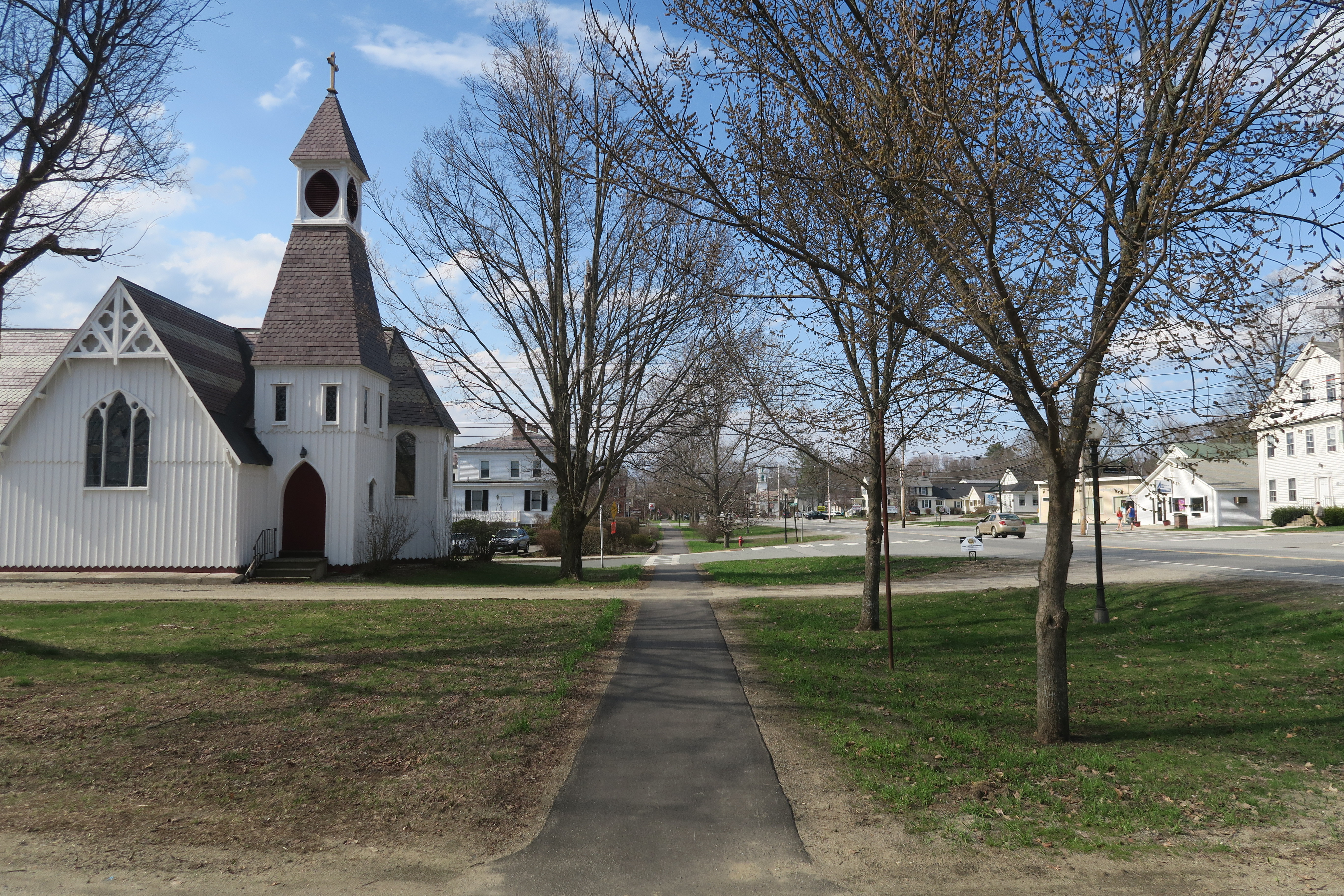 St Lukes Episcopal Church, Charlestown New Hampshire